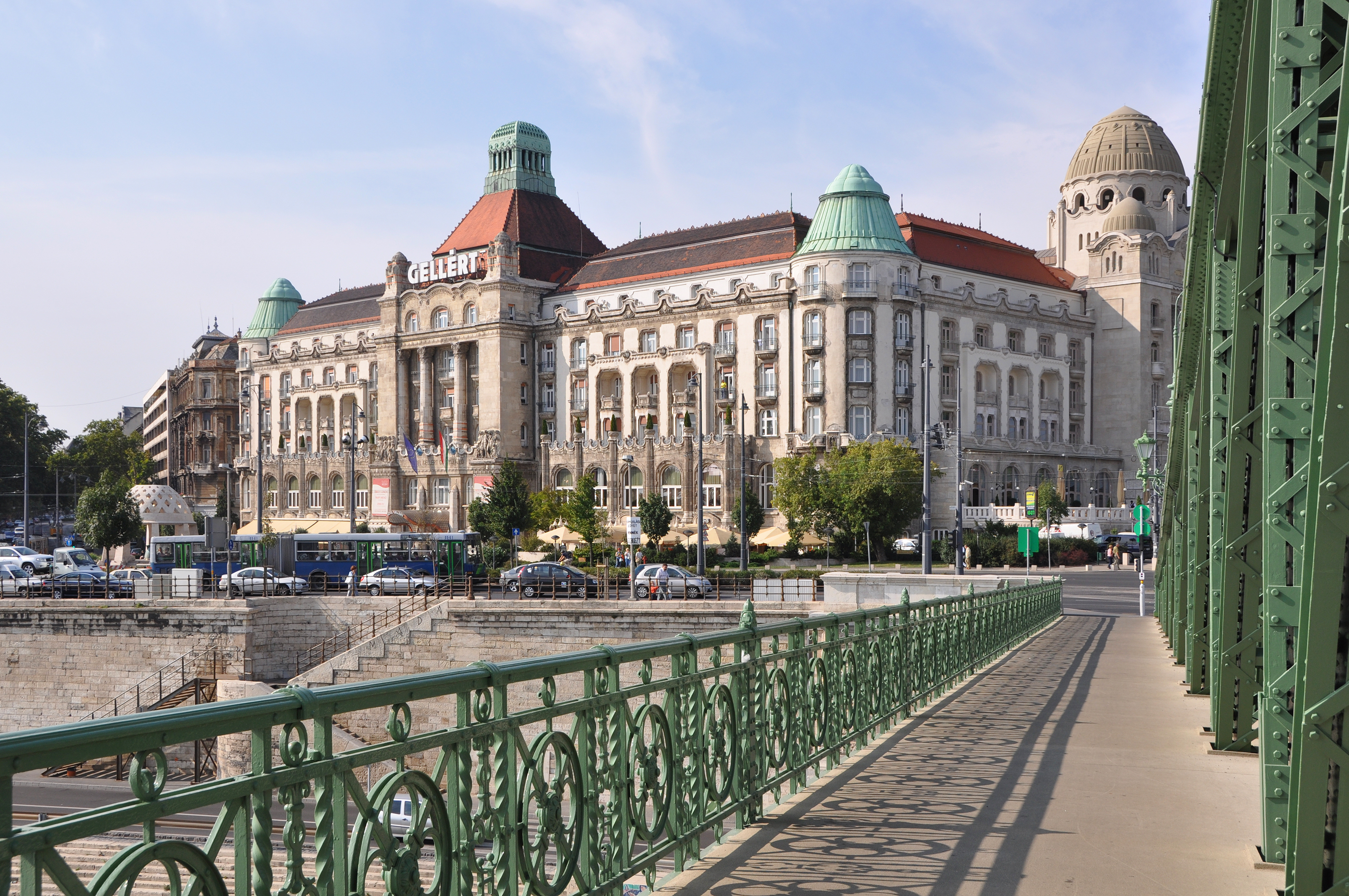 Budapest (Hungary): the historic Gellért Hotel seen from the Szabadság Bridge